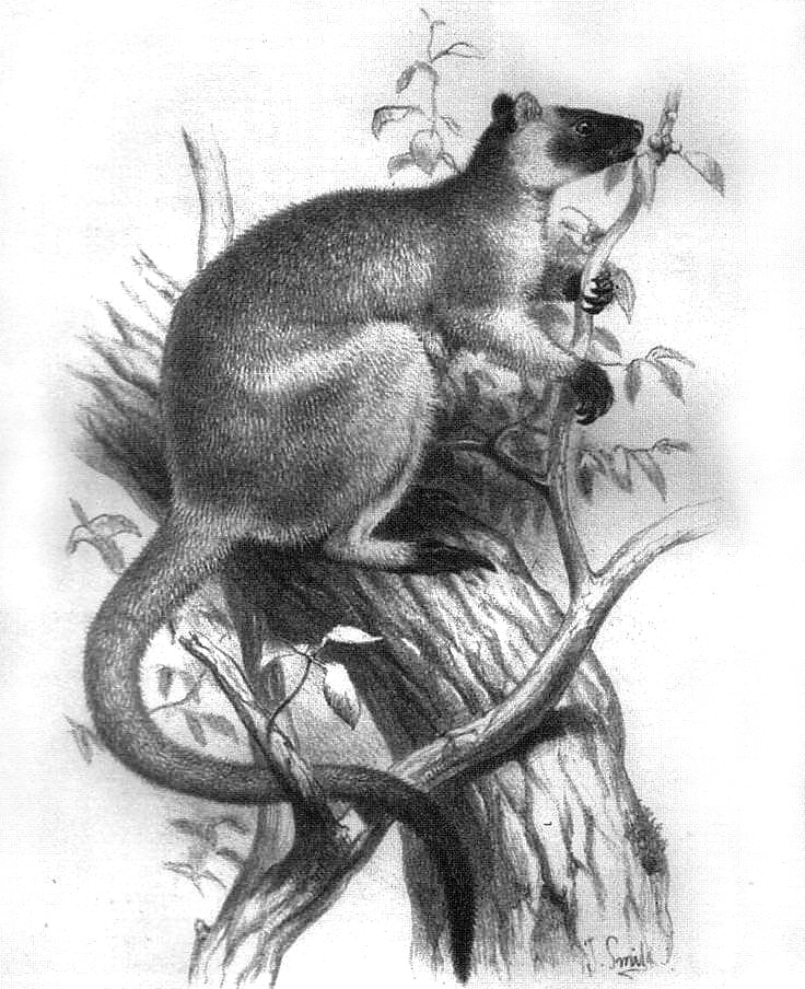 The lithograph of Lumholtz's Tree-kangaroo that in 1884 accompanied the original description of the species. The copyright has, therefore, long expired. John Hill 03:29, 4 December 2006 (UTC)